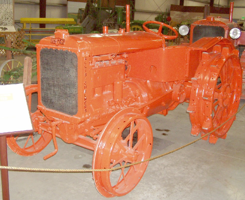 Allis-Chalmers model United tractor. Photo taken by Evan Jennings, Nov. 2006 at Woodland, California, AG History Center.